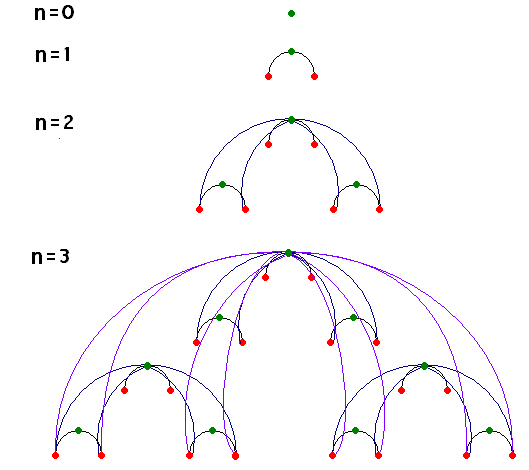 Layered Scale-Free Network. Motif 3 nodes with 2 edges